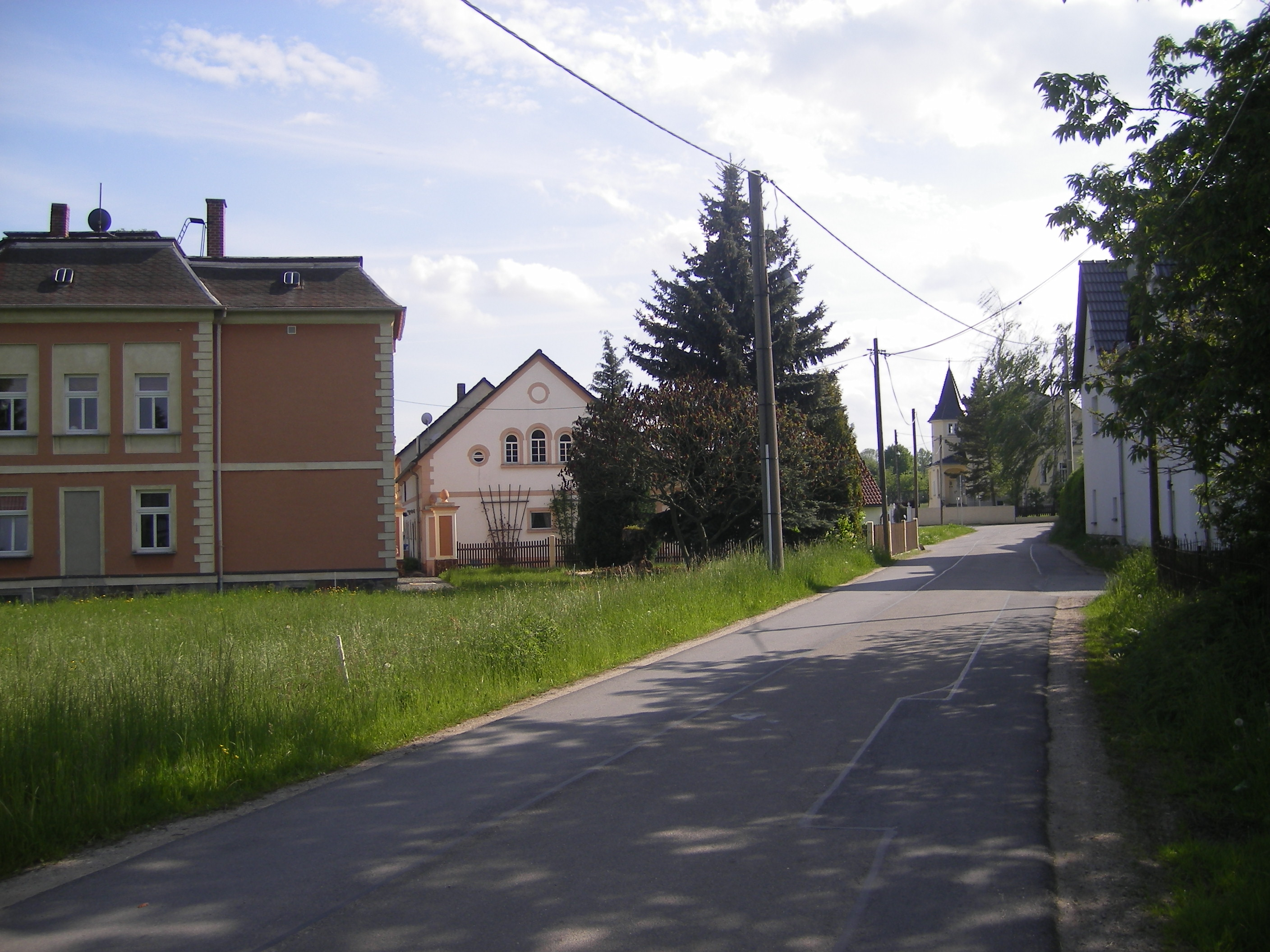 In the thuringian village Zschöpel, municipality Ponitz near Altenburg in Germany